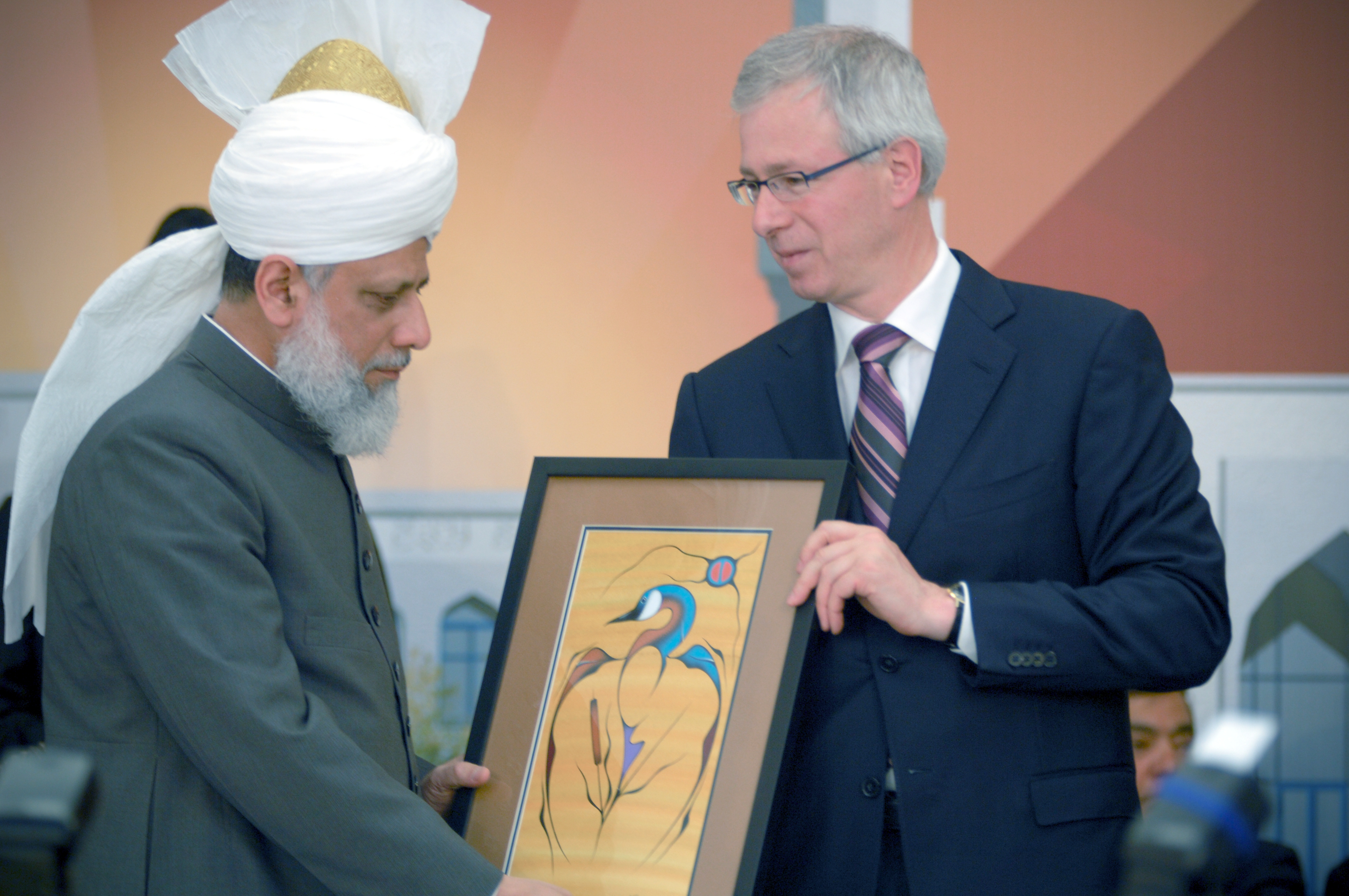 In Calgary His Holiness Mirza Masroor Ahmad (left) and Liberal Opposition Leader Stephane Dion at the opening inauguration of the Baitannur mosque, the largest in Canada.